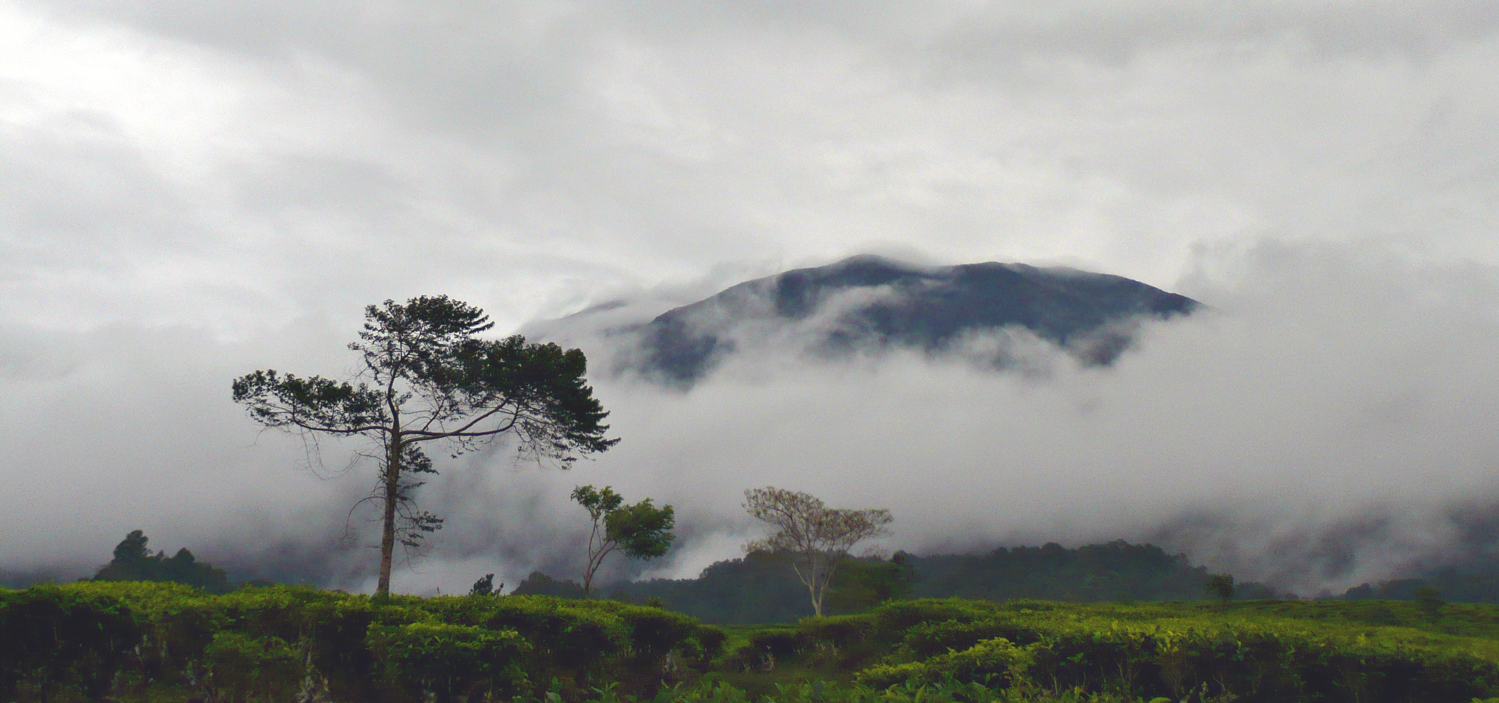 Mount Gede, as seen from the tea plantation @ Halimun, Sukabumi